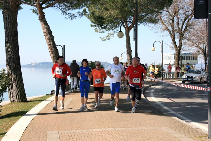 Strasimeno ultramaratona